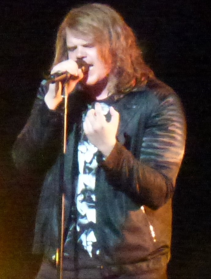 Rock singer and American Idol season 13 winner Caleb Johnson performing at Wolf Trap in Vienna, Virginia during the 2014 American Idol summer tour.